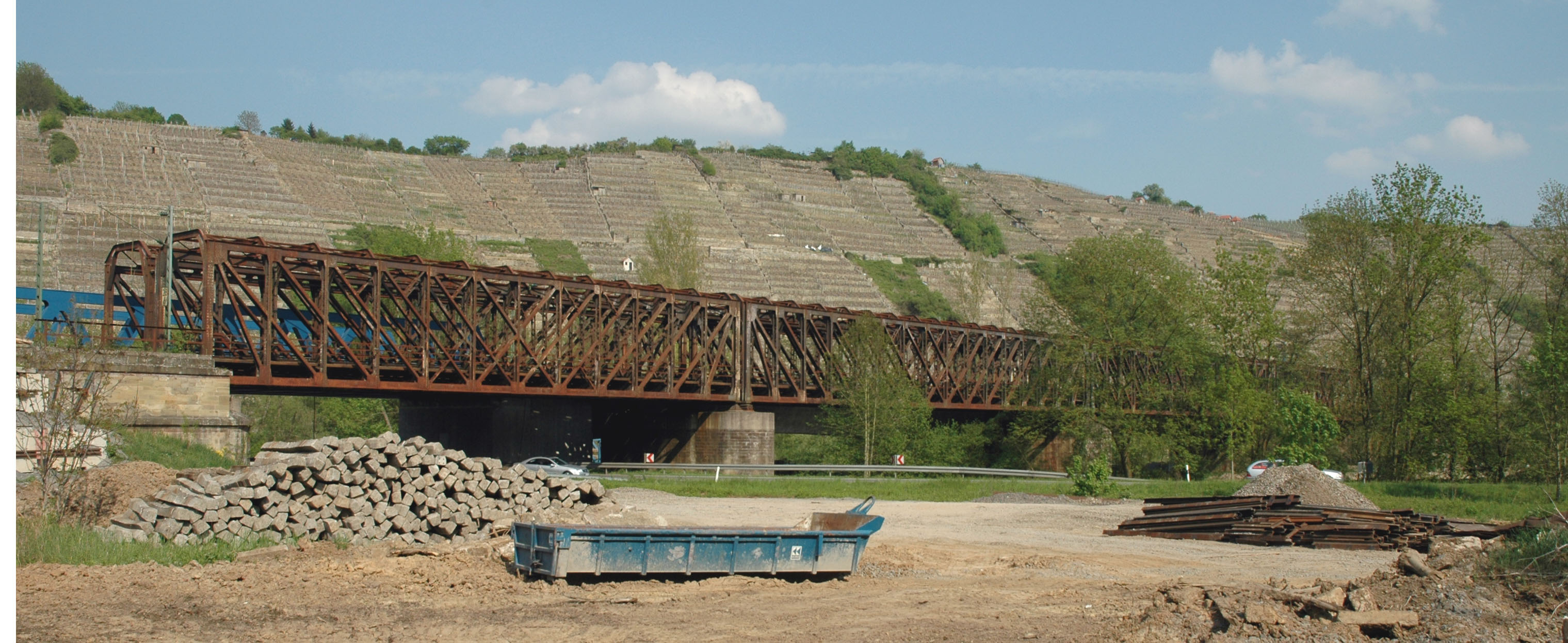 old and new Enz bridge of Frankenbahn near Besigheim.